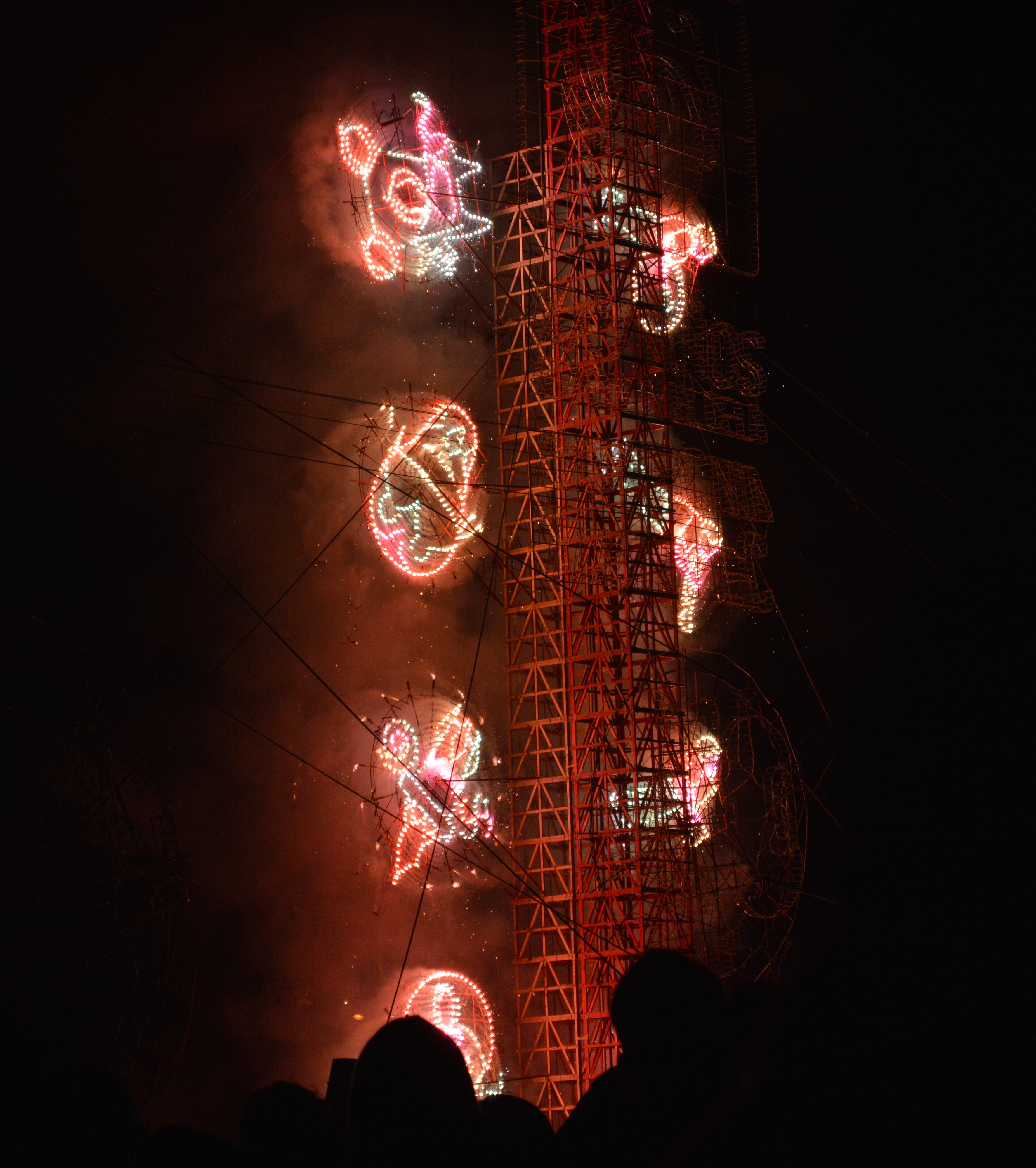 Sections of fireworks castles lit at the Feria Nacional de Pirotecnia in Tultepec, State of Mexico, Mexico